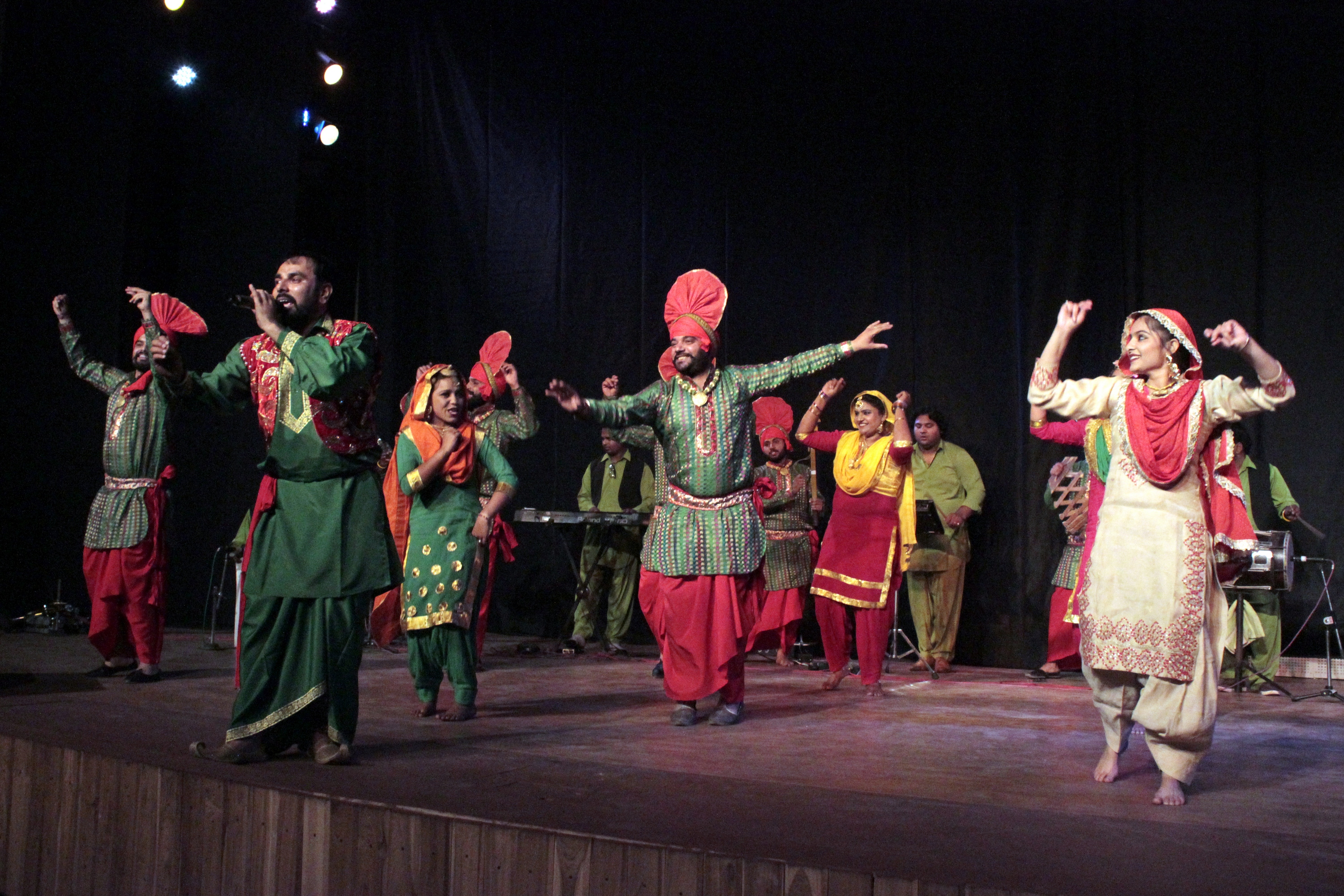 Punjabi Folk dance Gaidda Boliya and Bhangara at Bhopal